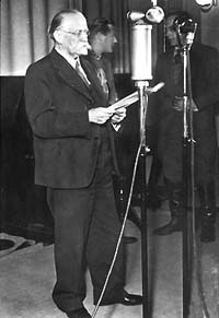 President Kyösti Kallio delivering his New Year's speech.